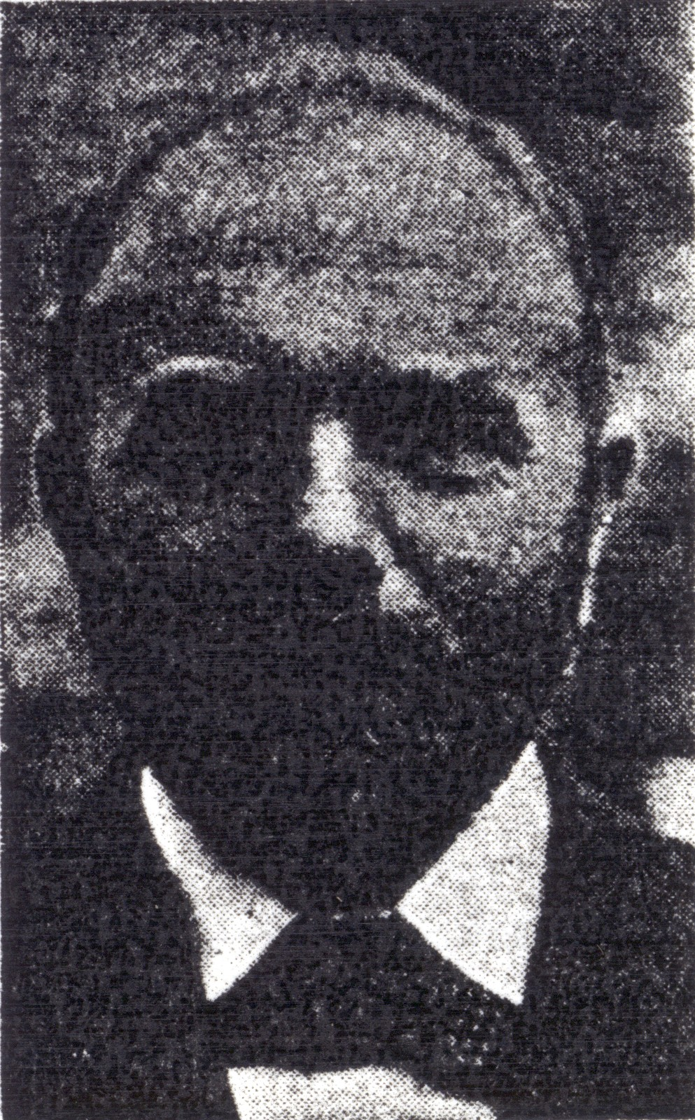 George William Reid, Natal Government Railways Locomotive Superintendent (1896-1902)